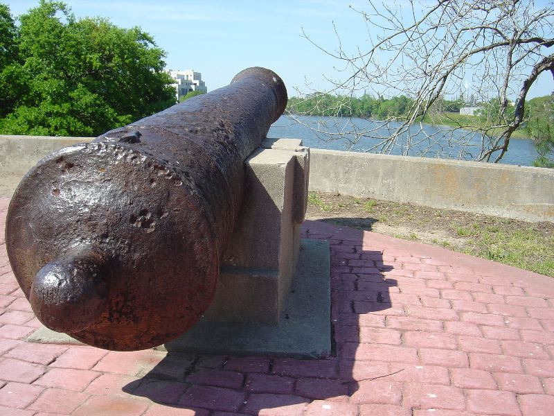 Cannon in Arsenal Park, Baton Rouge, Louisiana, overlooking Capitol Lake.